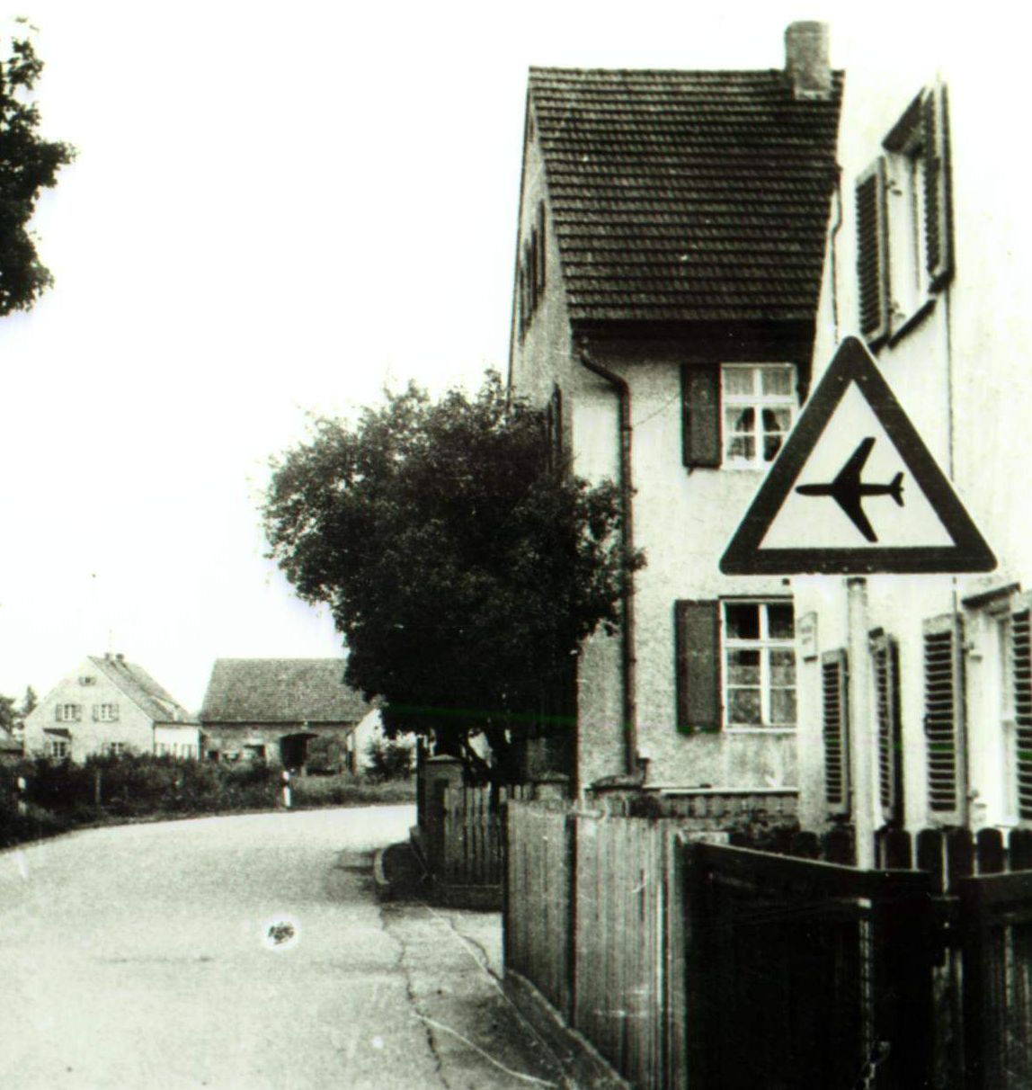 Aircraft warning sign in Zell, Germany. This version of the signs was introduced in 1966, slightly modified with the 1970 issue of the road regulations of Germany (StVO).